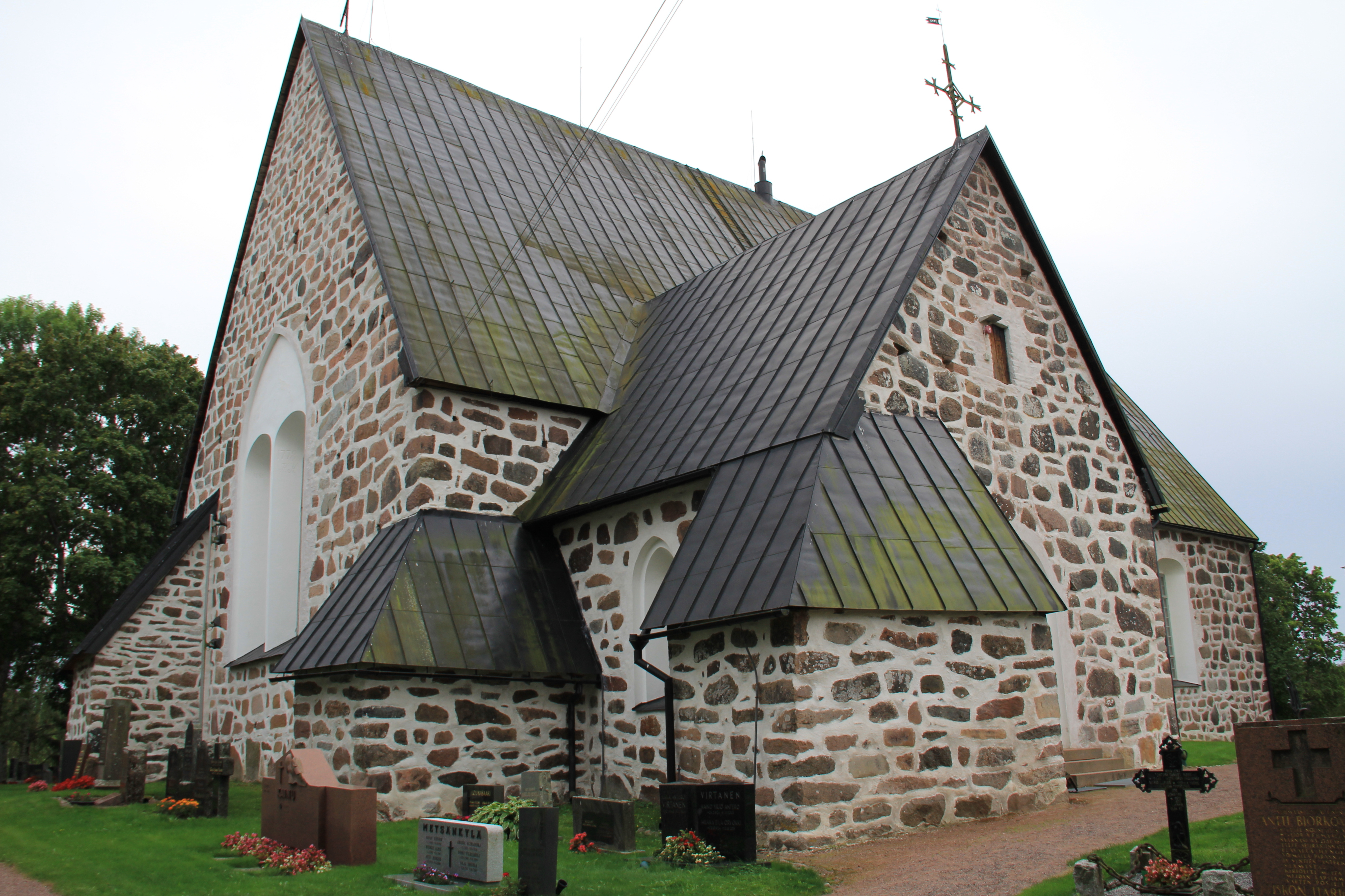 Vehmaa church, Vehmaa, Finland. - Church seen from north.